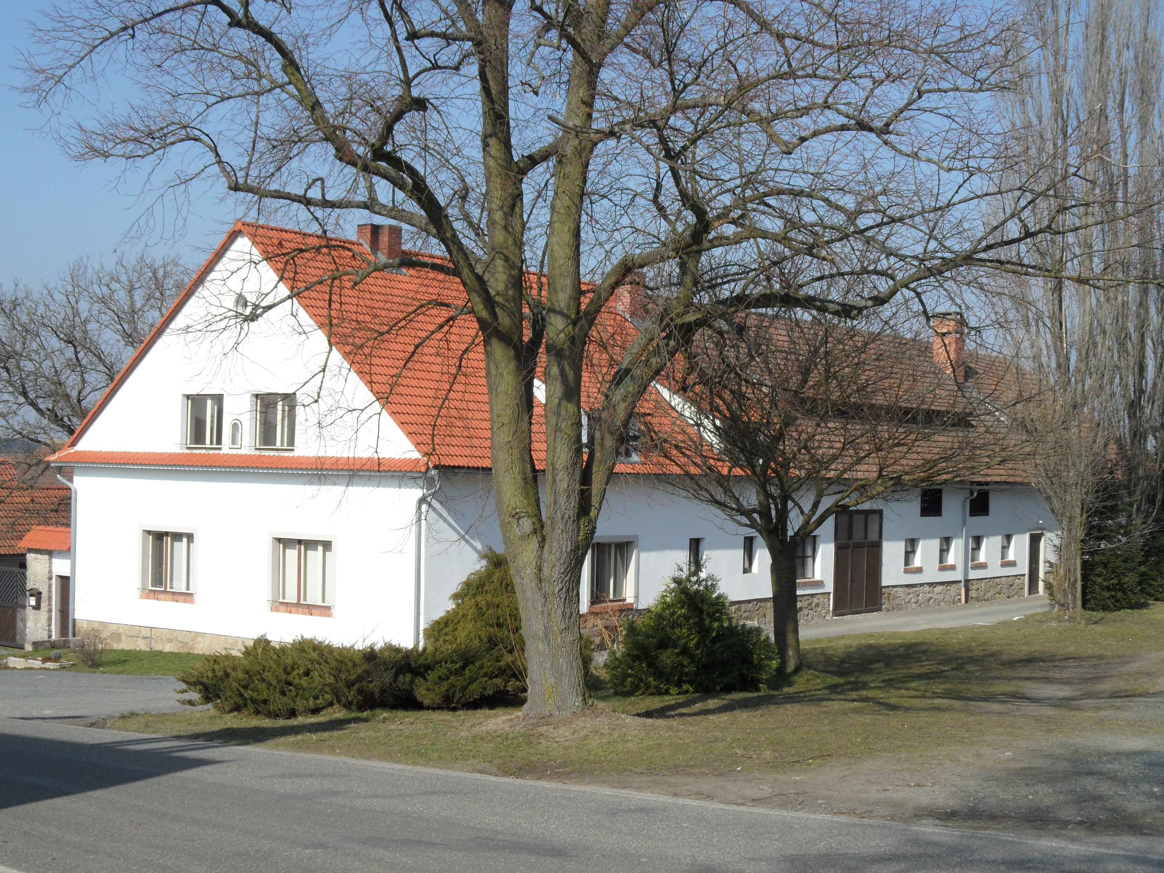 Nová Ves u Leštiny C. House with "mini chapel". Havlíčkův Brod District, the Czech Republic.